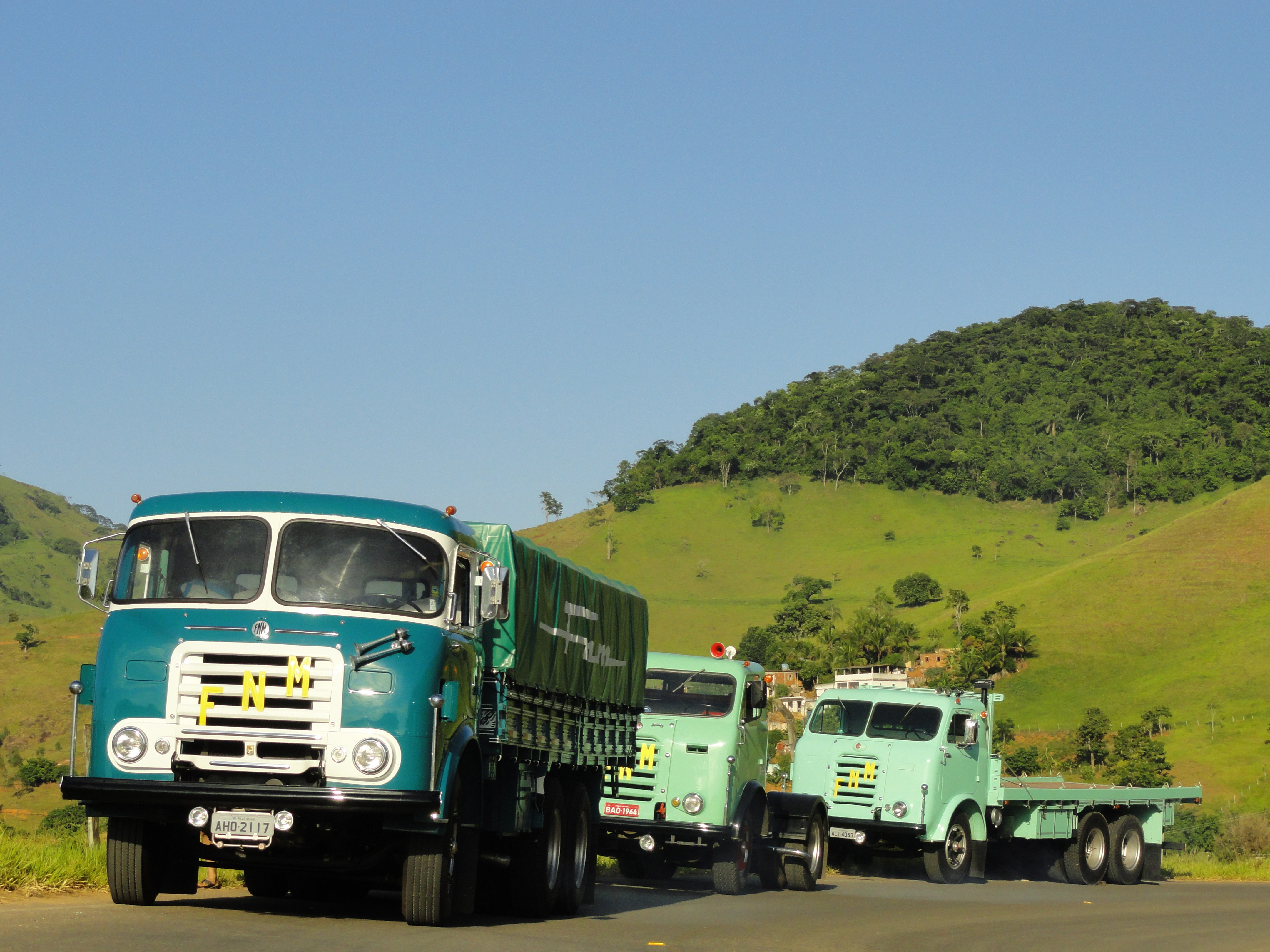 FNM D-11.000 trucks in a road trip to Bahia, Brazil.